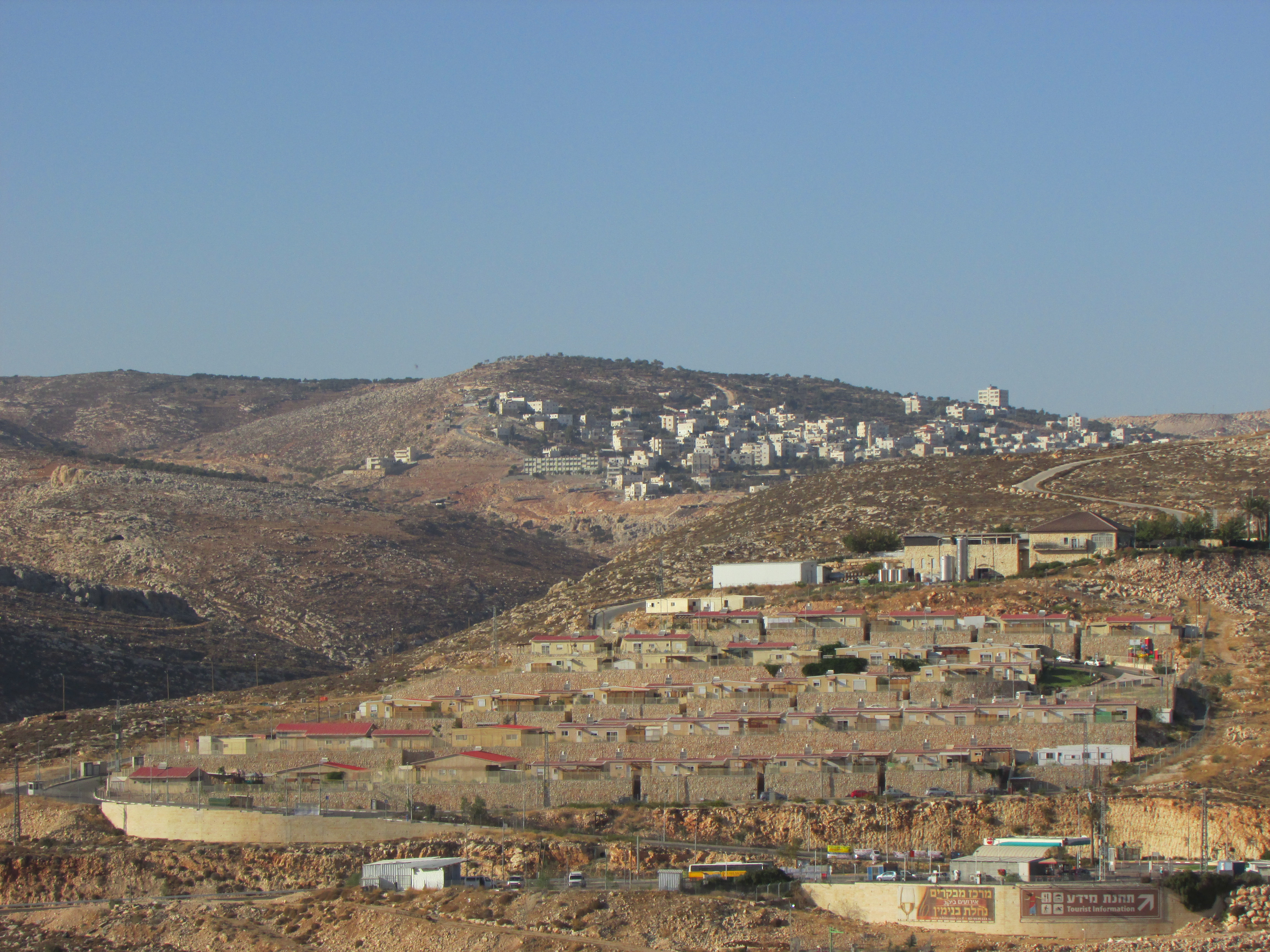 Lower Migron and burqa from Shaar Binyamin